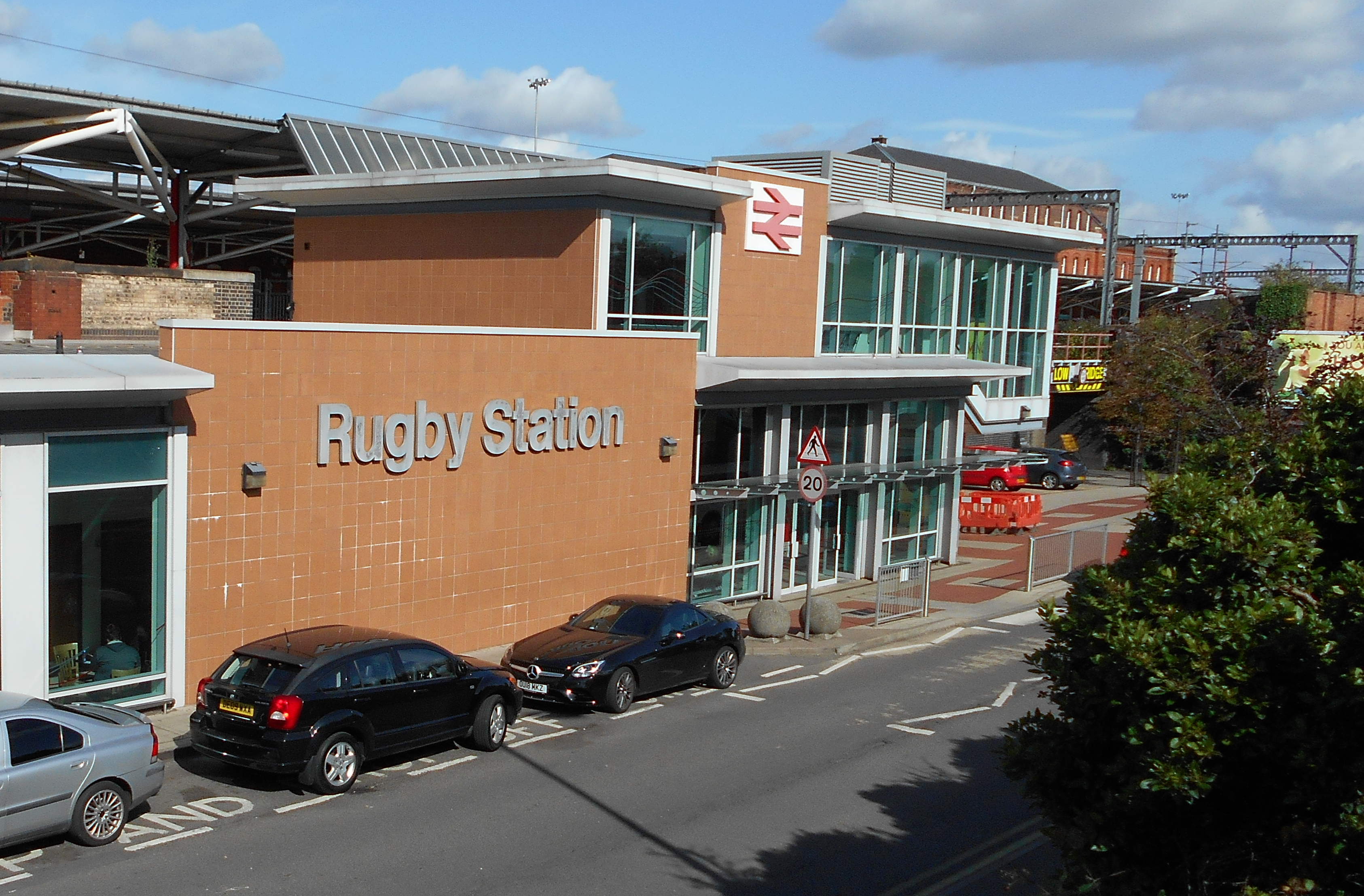 Frontage of Rugby railway station.